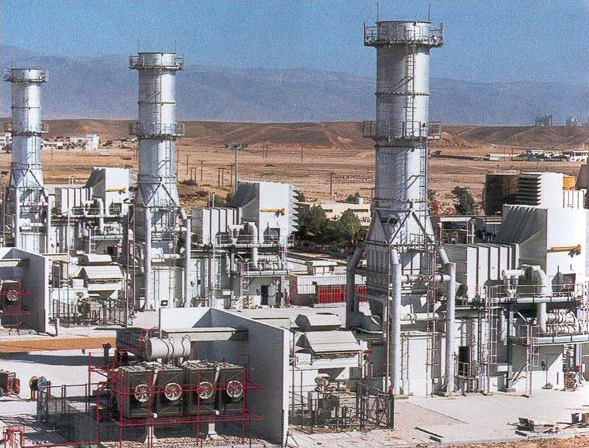 Salalah power plant in operation, Oman